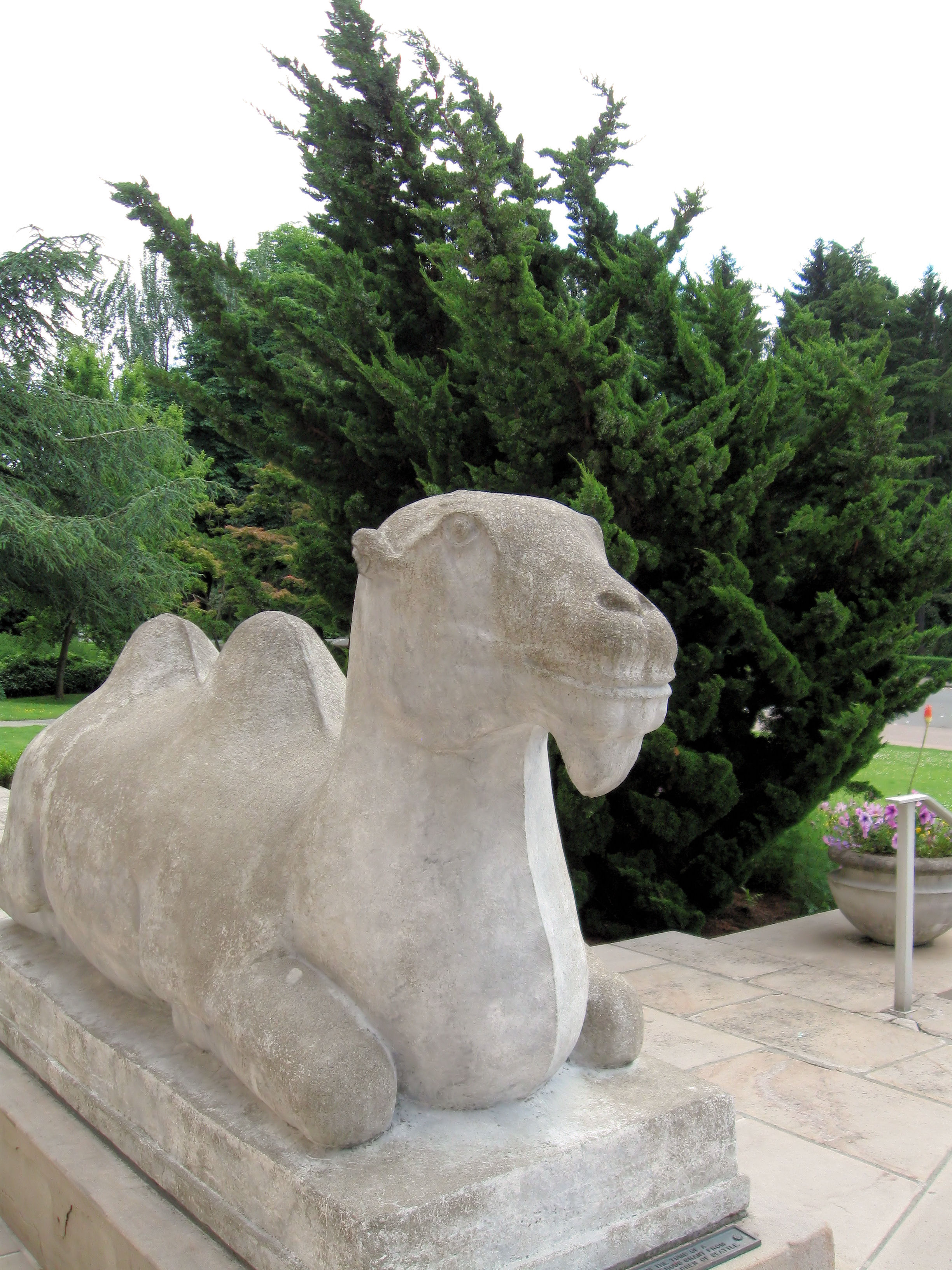 Seattle Asian Art Museum, camel statue in front, Volunteer Park, Seattle, Washington. The museum building has city landmark status.